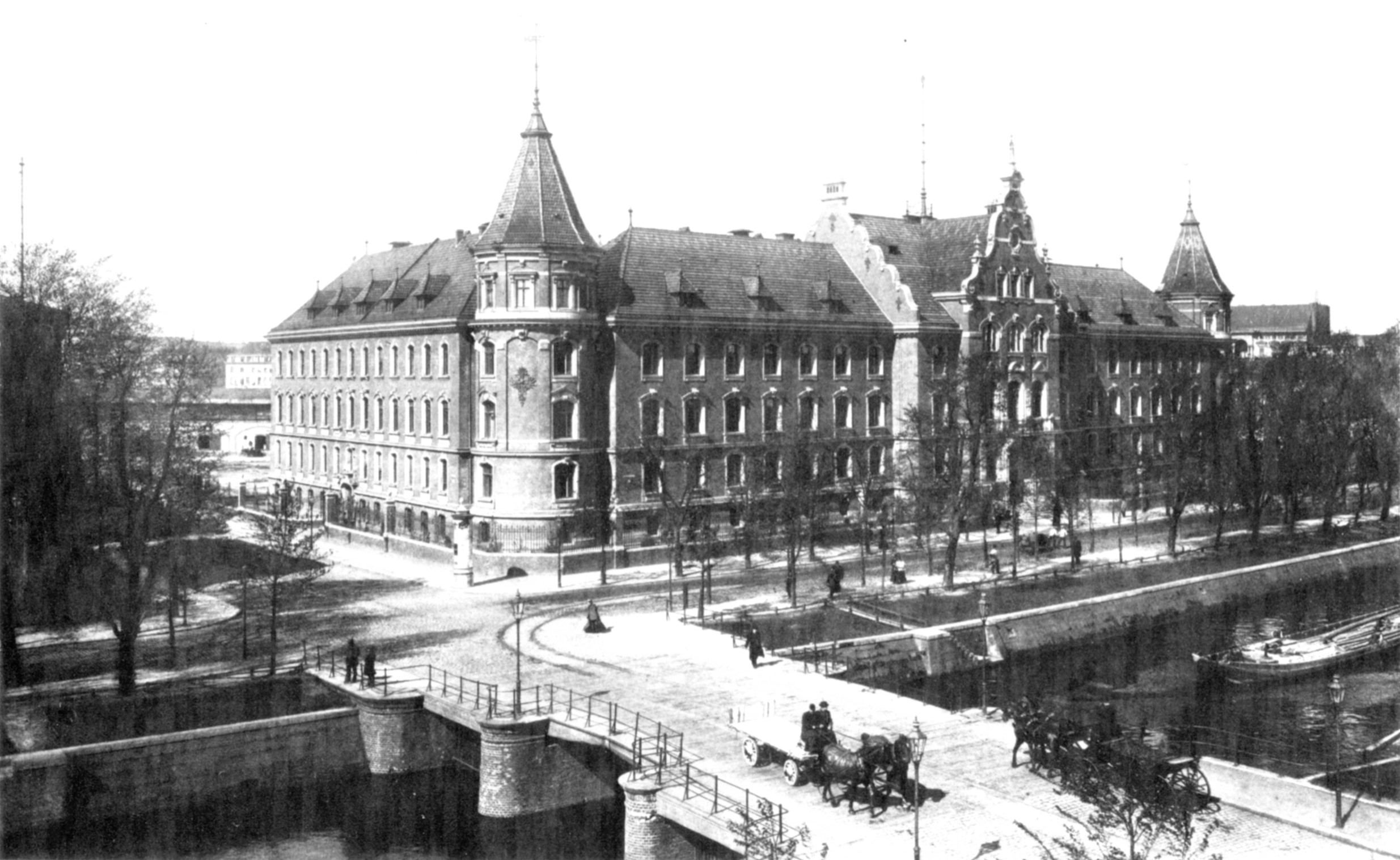 Berlin, Königliche Eisenbahndirektion (Royal Railway Division), view from east over the Landwehrkanal